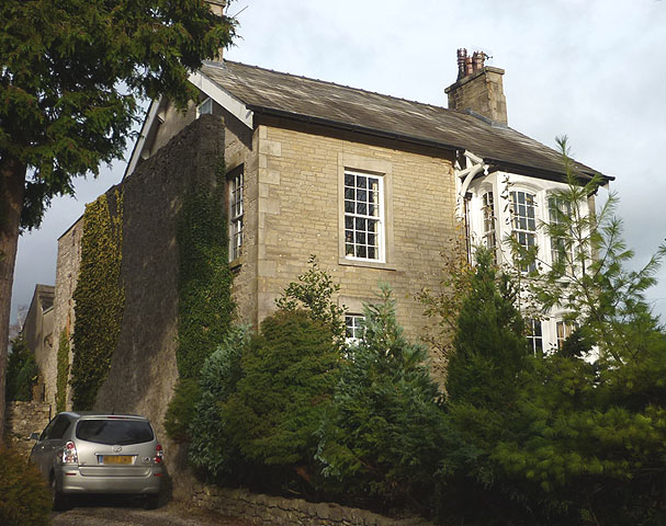 A 'spite wall', Stankelt Road, Silverdale